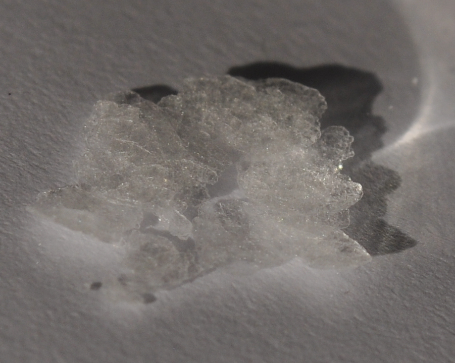 Tricosane (C23H48)